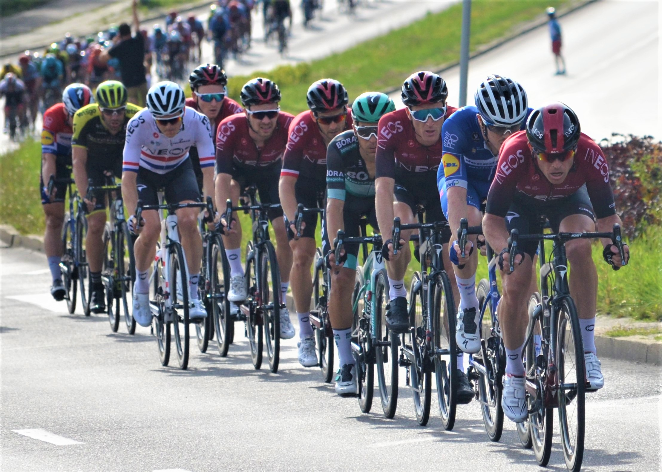 Tour de Pologne 2019